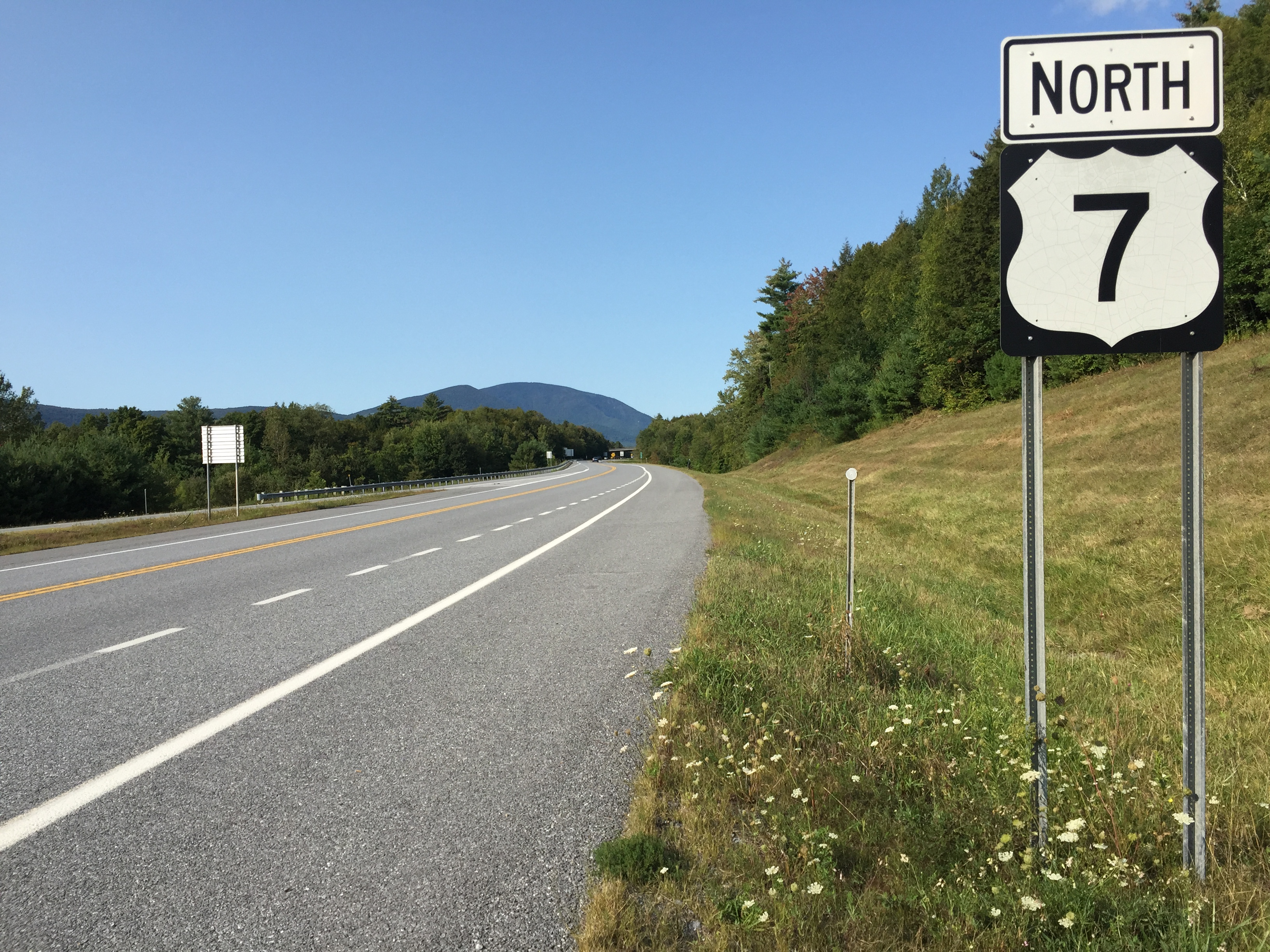 View north along U.S. Route 7 just north of Exit 3 (Vermont State Route 313 to Historic Vermont State Route 7A, Arlington, Sunderland) in Sunderland, Bennington County, Vermont